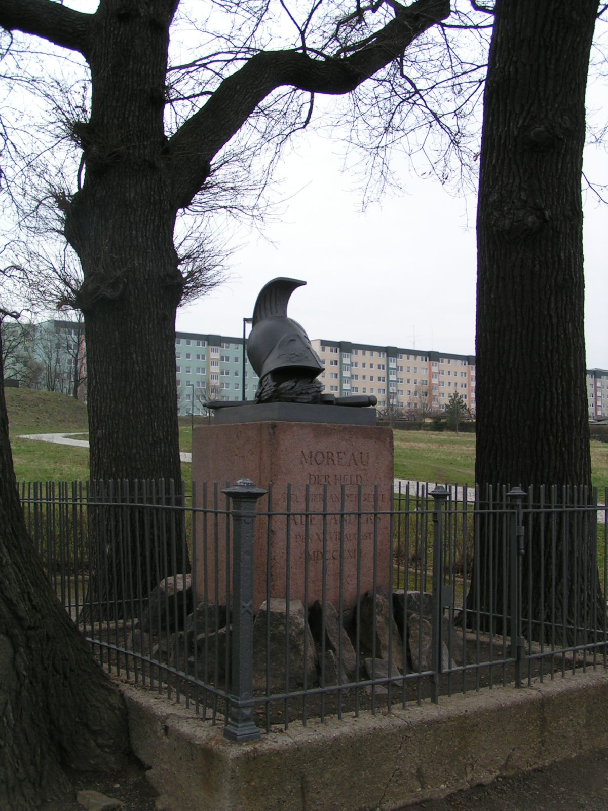 Memorial for Jean Victor Moreau in Dresden